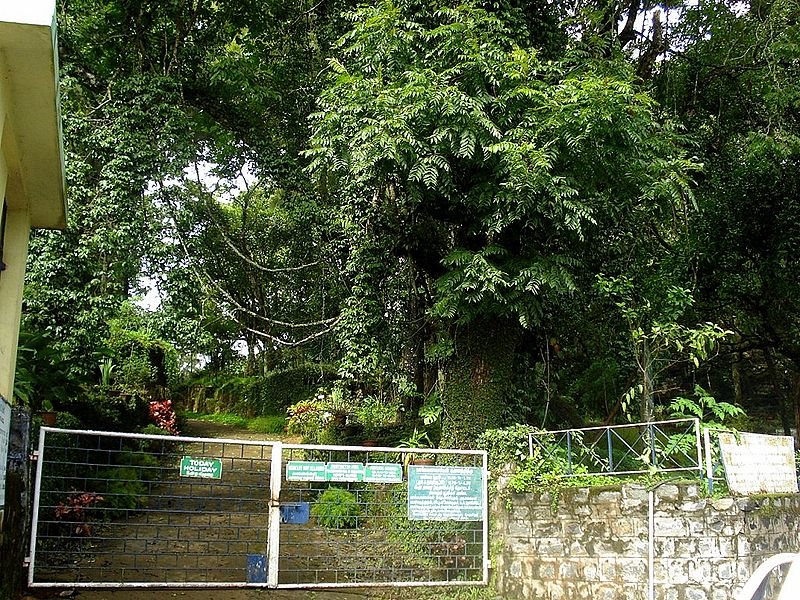 Yercaud botanical gardens